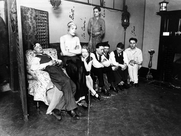 Photograph used in evidence for a prosecution for "keeping a disorderly house" in a flat in London's fashionable Fitzroy Square, previously home to members of the Bloomsbury Group such as Virginia Woolf. Robert Britt (second left) a dancer at the London Empire theatre was the flat's owner. Those pictured were all arrested and tried after police staked out the flat and raided it. For little more than attending house parties at the flat, a number of the men pictured were sentenced to more than six months in prison. Britt was sentenced to 15 months hard labour.